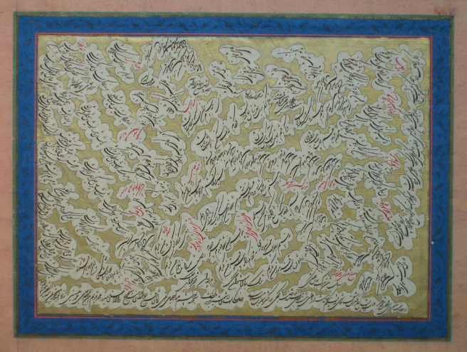 Bedii elyazma numunesi. Mirzə qədim irəvani